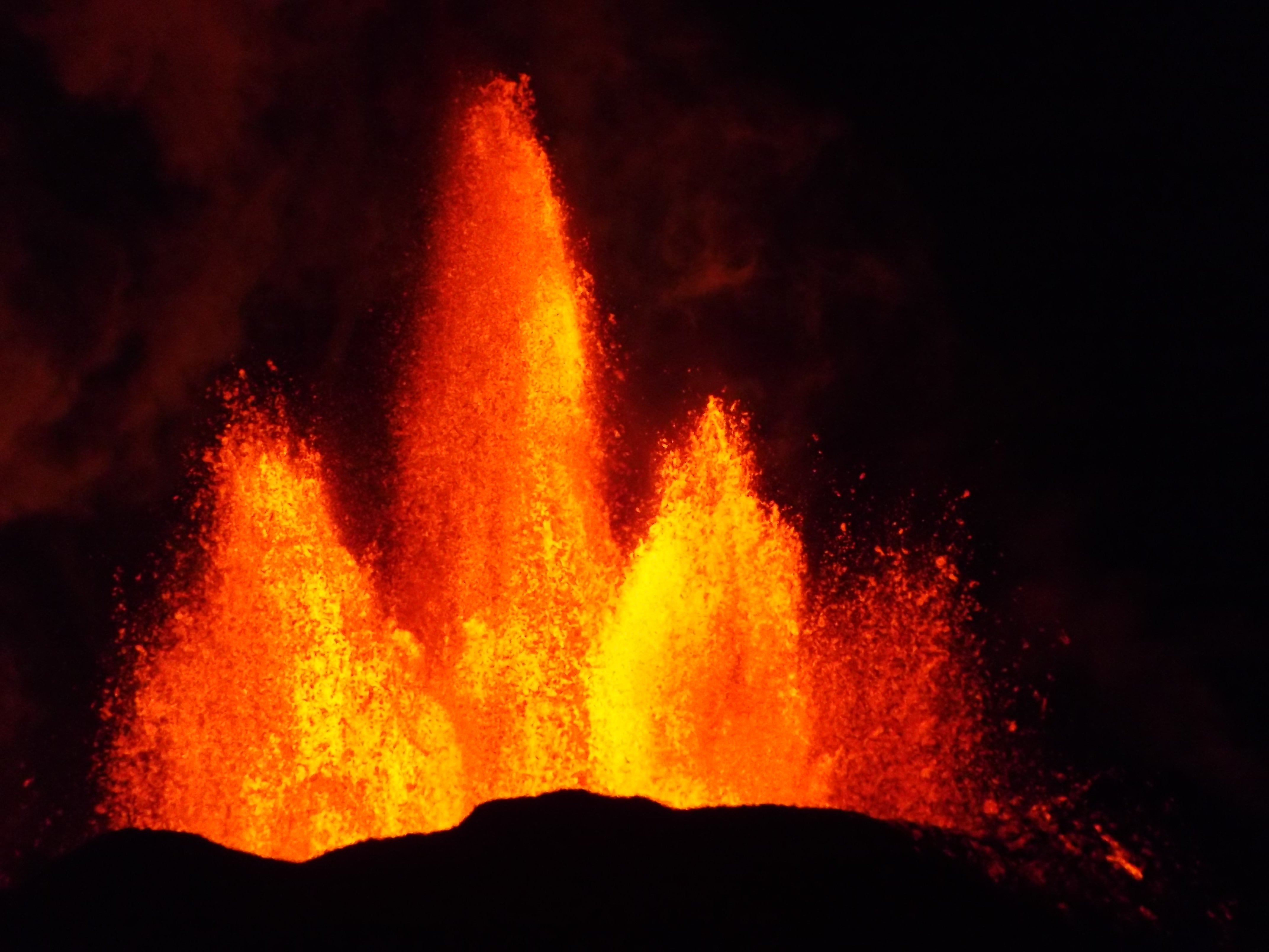 Lava fountains of the fissure eruption in Holuhraun, northeast of Bárðarbunga (Iceland). The fountains on the photo are of the fissure's main crater and were about 70-90 meters high at the time of the photo.